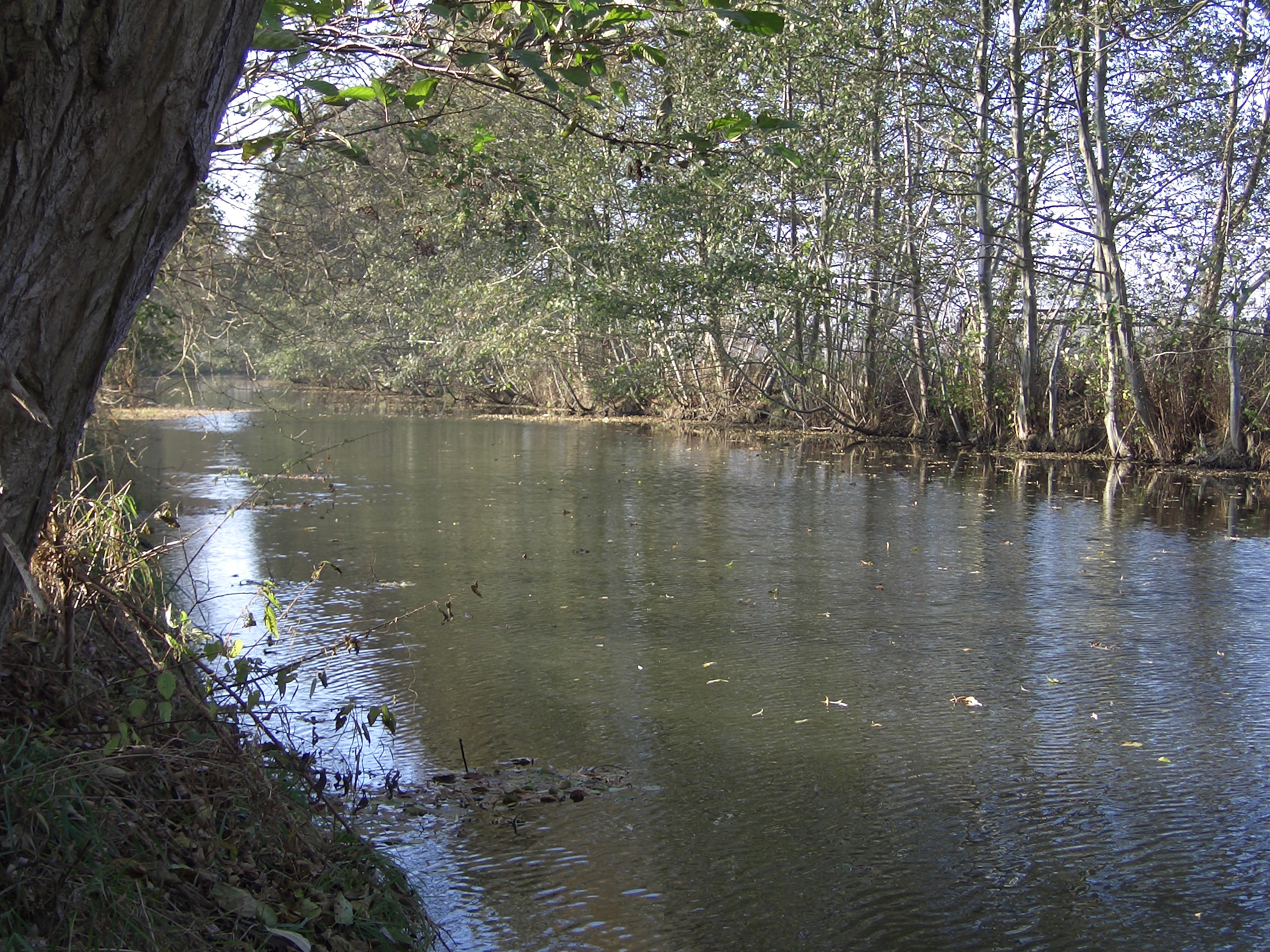 „Alter Rhin“ (small German river in Brandenburg) by Friesack nearby the B5 (a relativ big street between Berlin and Hamburg).